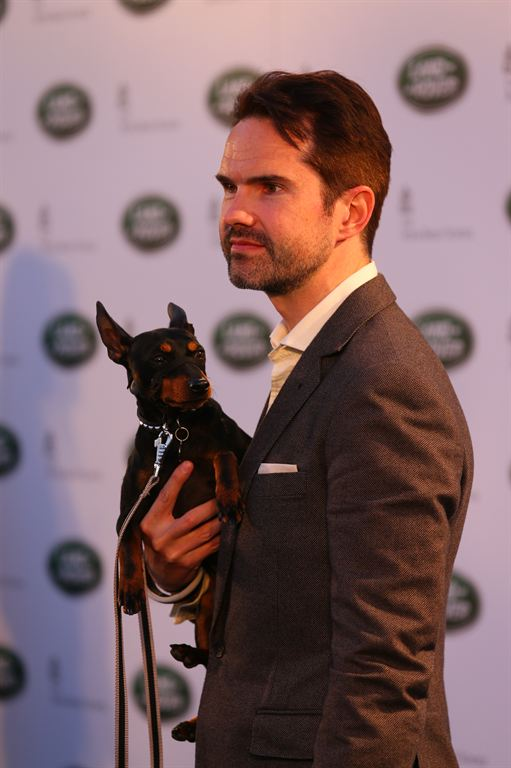 The All-New Range Rover | Global Reveal